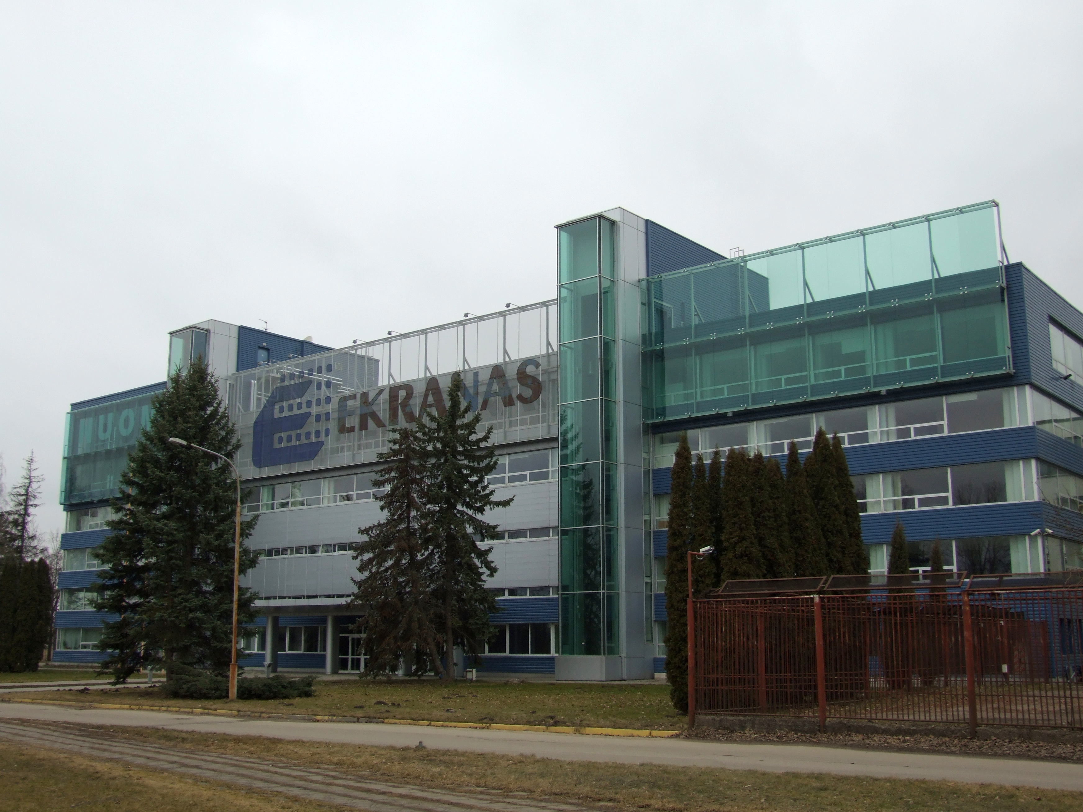 Panevežys factory "Ekranas" (Color TV tube)